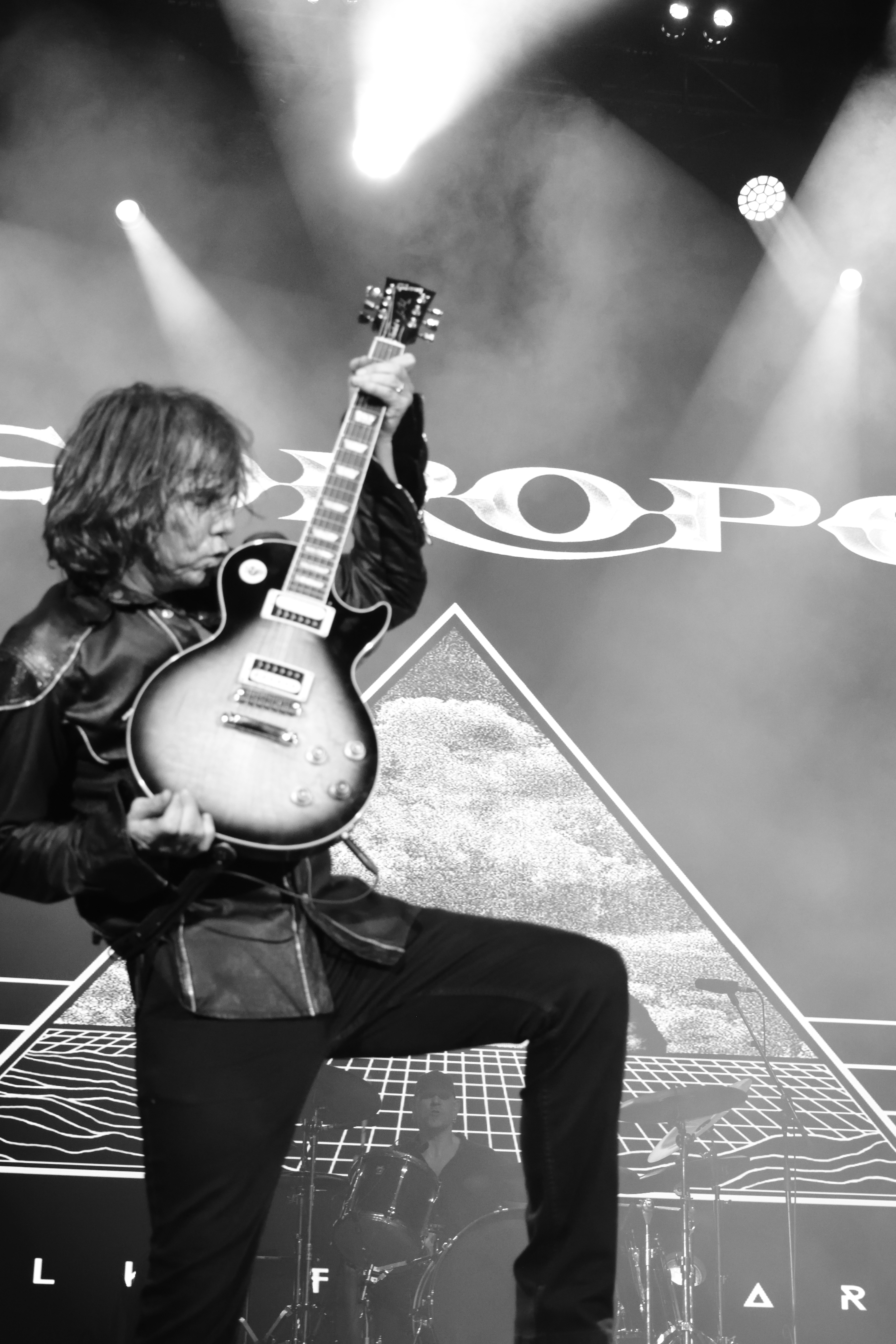 Joey Tempest